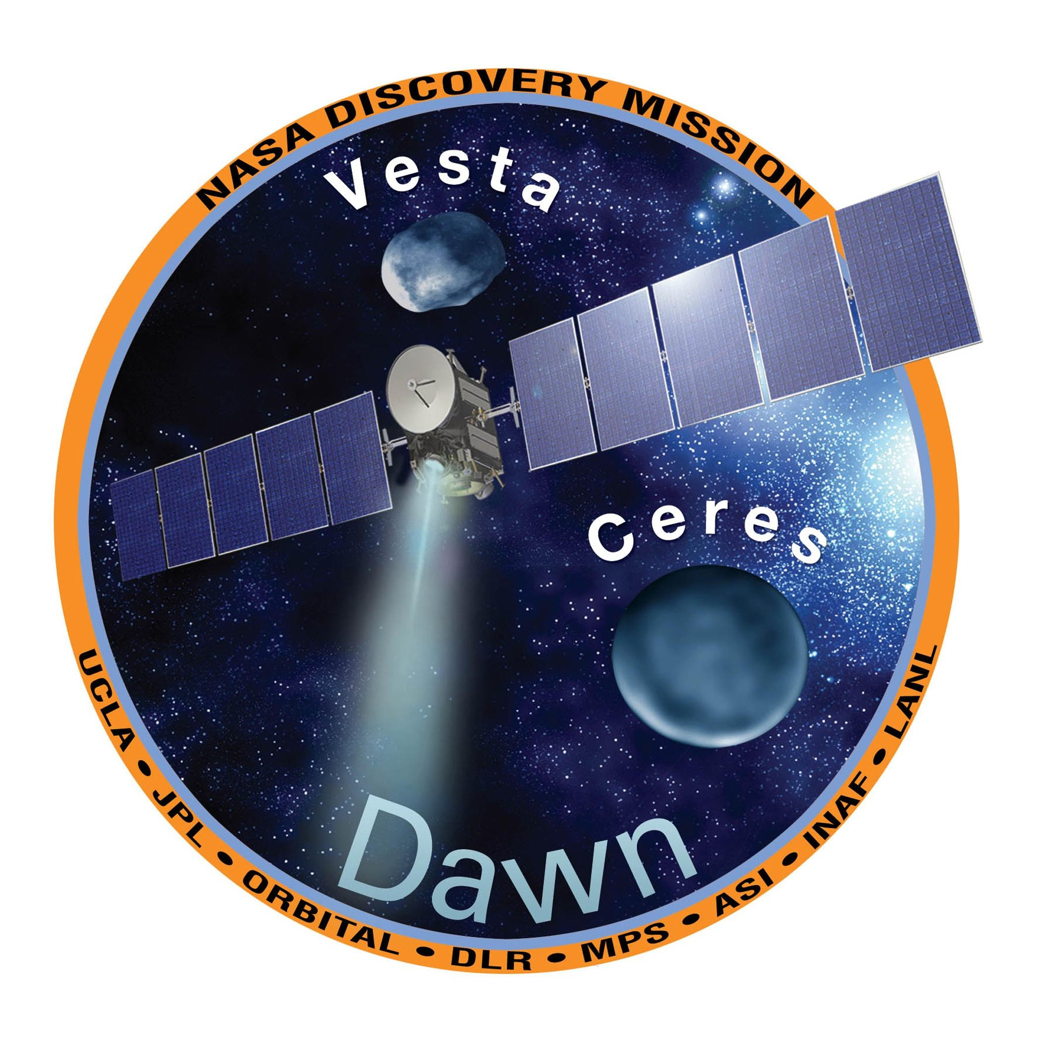 Logo of the Dawn mission.